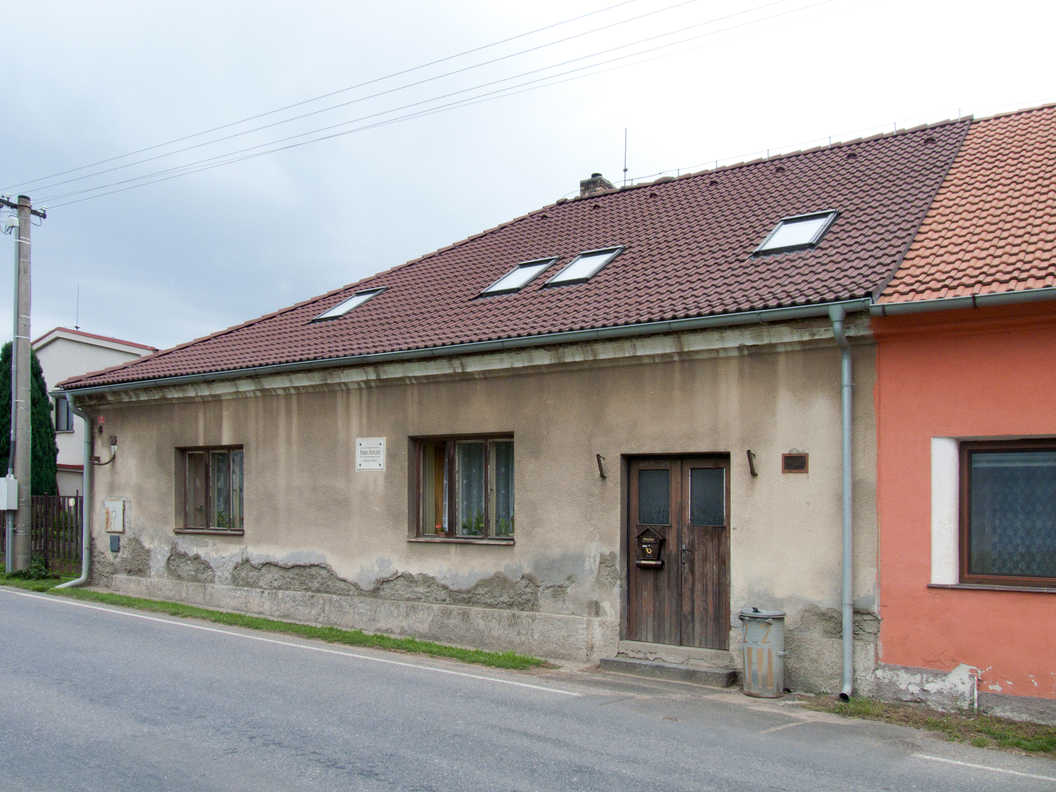 Birthplace of the composer Karel Komzák (1823 - 1893), house No 22, in the village of Netěchovice, České Budějovice District, Czech Republic